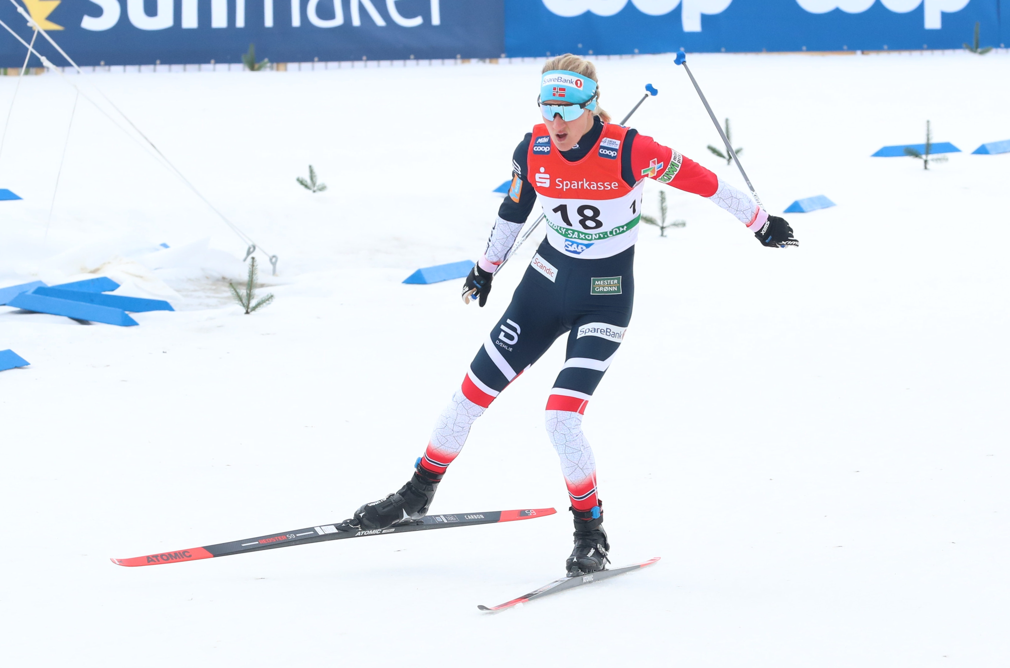 Women's Qualification at the FIS Cross-Country World Cup Dresden 2019 (1.6 km Free Sprint)